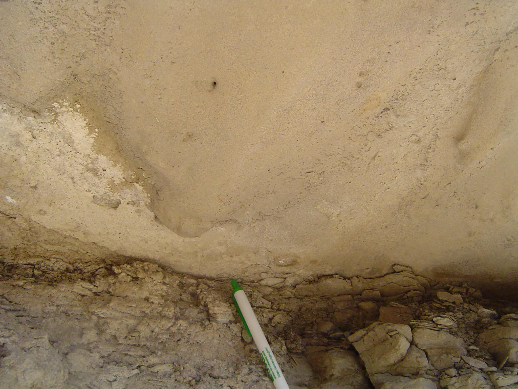 A Flute cast, a sedimentary structure in which a river current scours a specific shape into the base of a bed. This view is from below, i.e., from an overlying sand body that filled in (the "cast") the scour. From the Book Cliffs near Helper, Utah. Pen for scale. Flute cast is seen as darker brown shape, broadening and tapering toward the upper right of the picture, which is the paleocurrent direction as well.